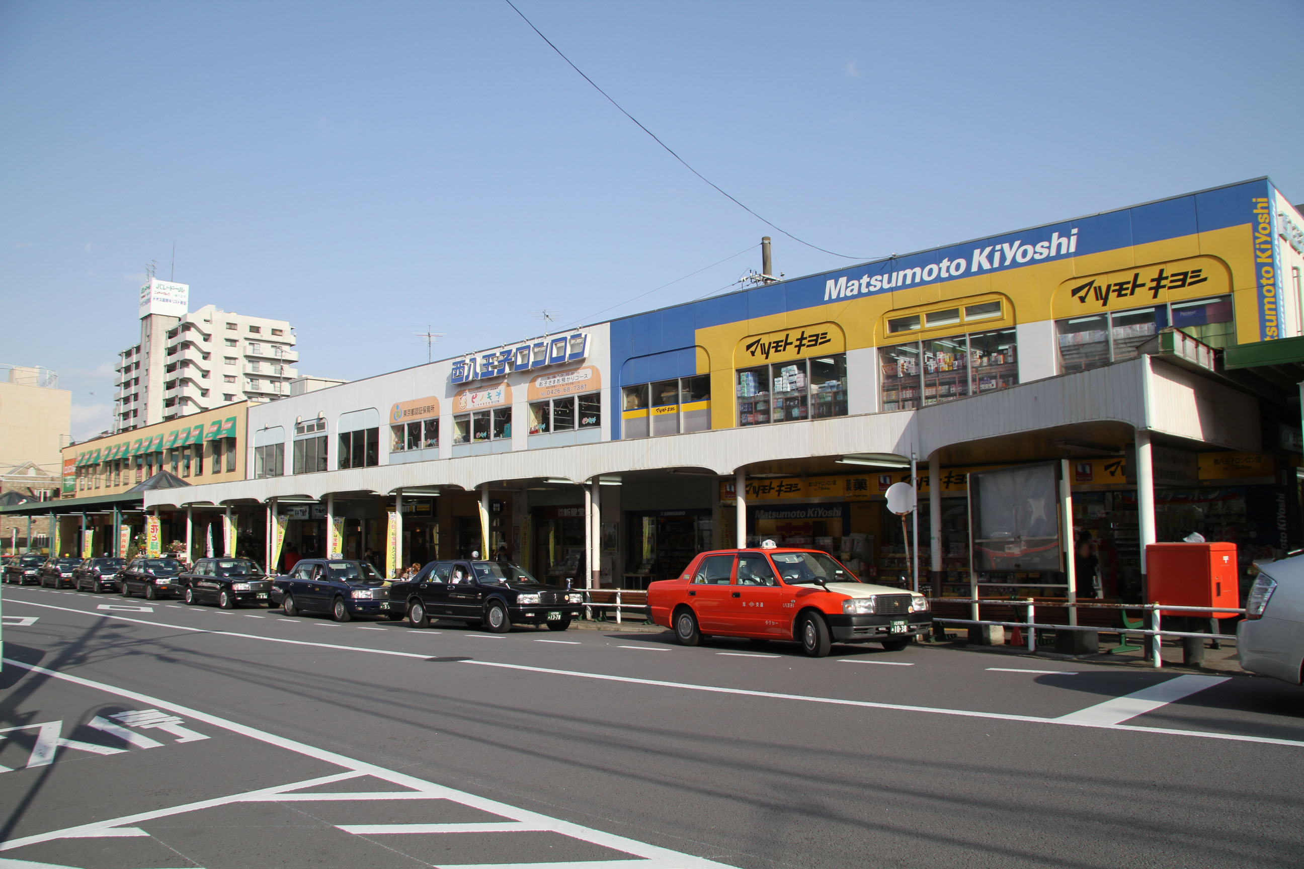 Nishi Hachioji LONLON, Hachioji, Tokyo, Japan